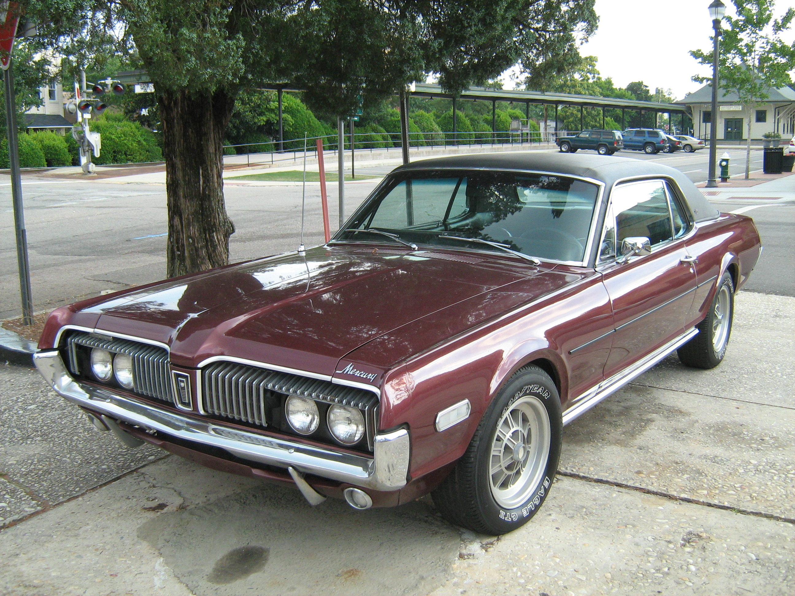 1967 Mercury Cougar, a two door hardtop pony car - left front view. Picture taken in Southern Pines, North Carolina. The Amtrak station (code - SOP) is visible in the background.